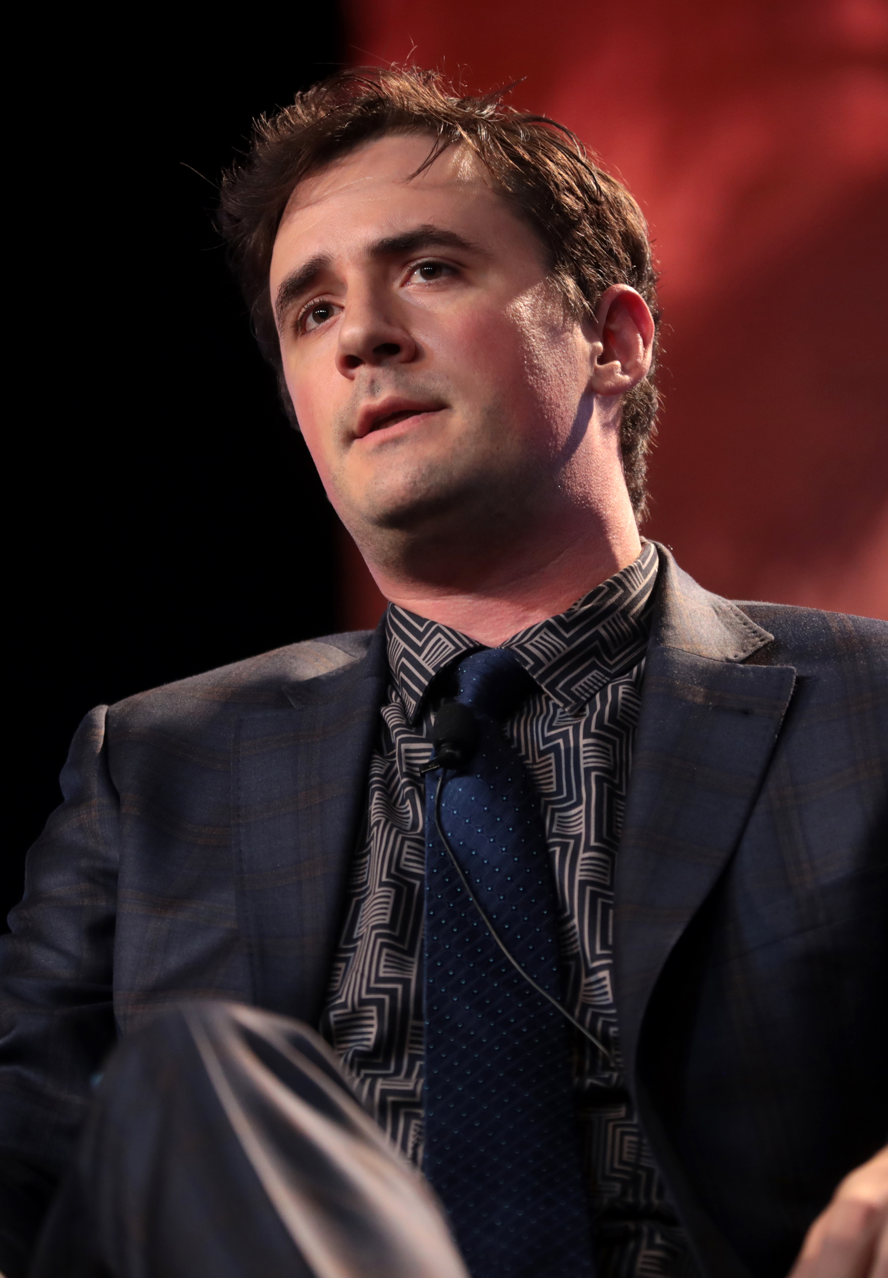 Alex Marlow speaking at an event in West Palm Beach, Florida.